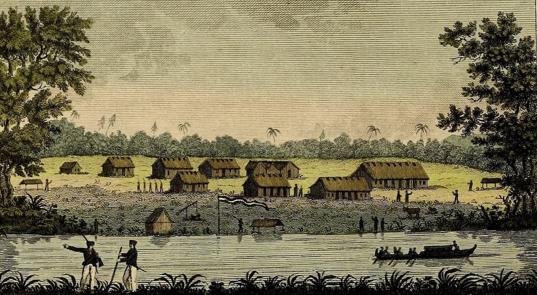 Engraving from John Gabriel Stedman's Narrative of a Five Years Expedition against the Revolted Negroes of Surinam (1790)